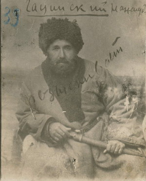 Photograph of Najmudin Gotsinsky (1859-1925), unknown photographer. Prime minister of the "Republic of Ter-Dagestan" 1918-1919 and Imam of the Caucasian Imamate 1919-1920, rebel against the Red Army 1920-1925. Between 1920 and 1925 it was written by a Soviet officer "33 Гацинский Нажмуд(ин) разыскивает.(ся)" (english: "33 Gatsinsky Nazhmud(in) want.(ed)").